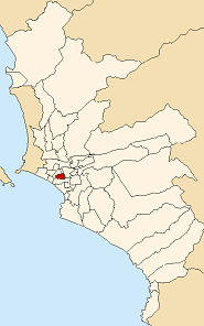 Map of Lima highlighting the Lince district in Lima.